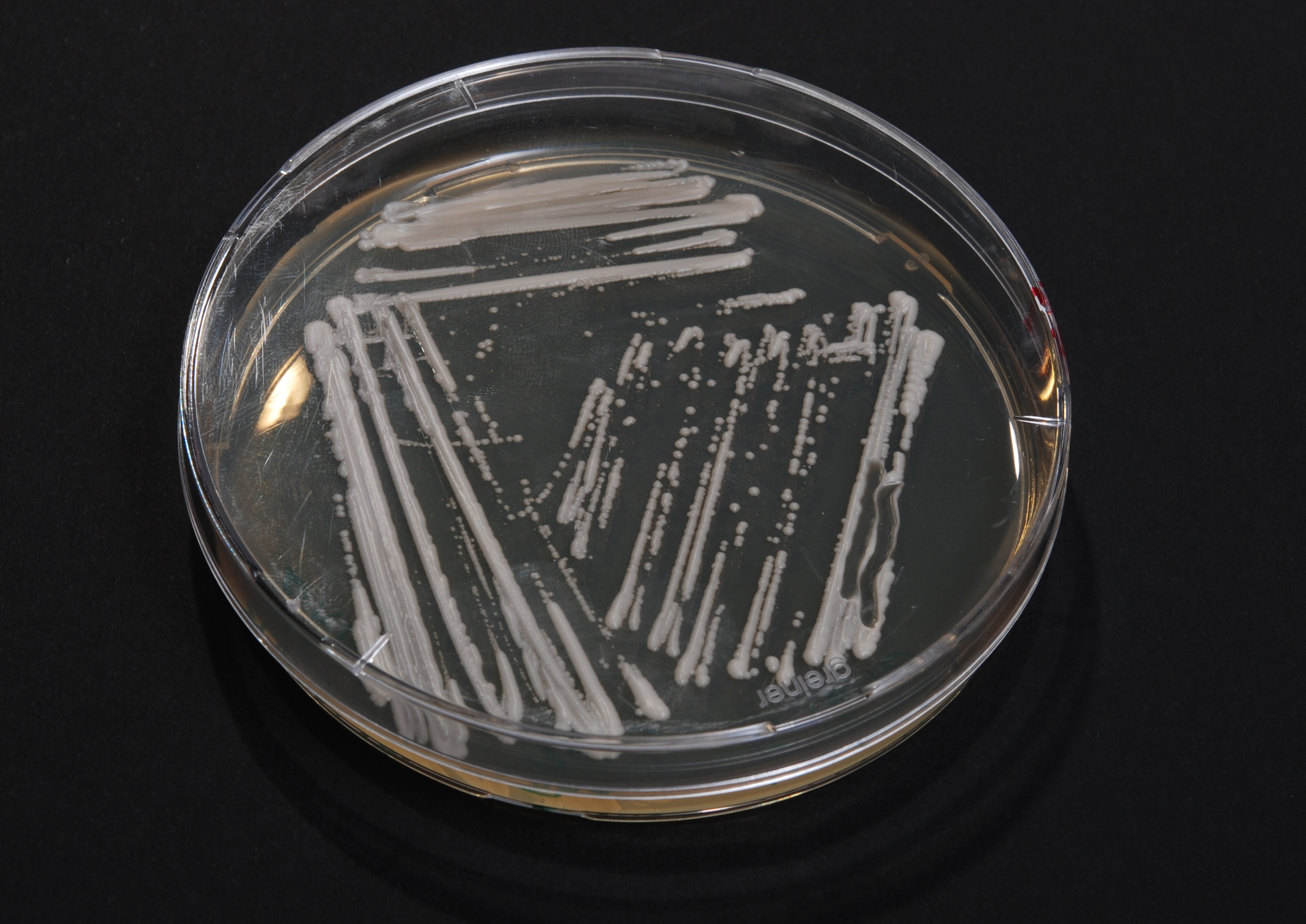 Agar plates with yeast colonies